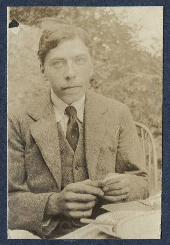 Gerald Frank Shove by Lady Ottoline Morrell (died 1938)